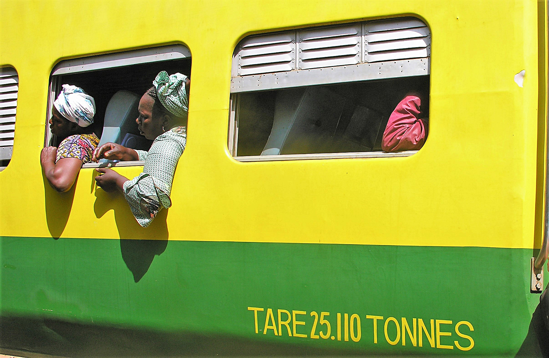 The Kayes-Bamako train at Kayes station. Mali This is an image with the theme "Africa on the Move or Transport" from: Mali